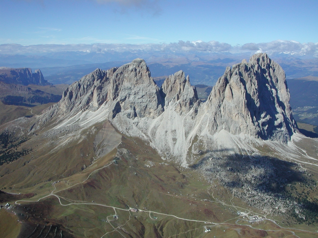 Langkofelgruppe in South Tyrol viewed from east.Left at bottom is Col Rodella, right at bottom Sellapass - taken from paraglider